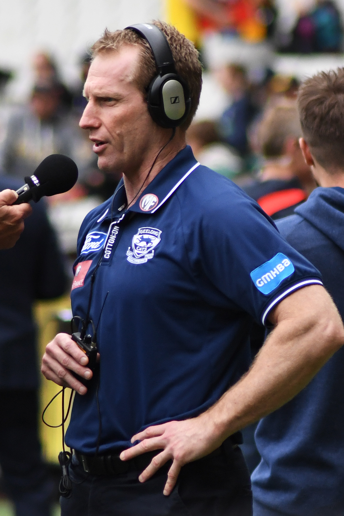 Matthew Knights of Geelong during the 2019 AFL round 5 match between Hawthorn and Geelong at the Melbourne Cricket Ground on Monday, 22 April 2019 in Melbourne, Victoria.